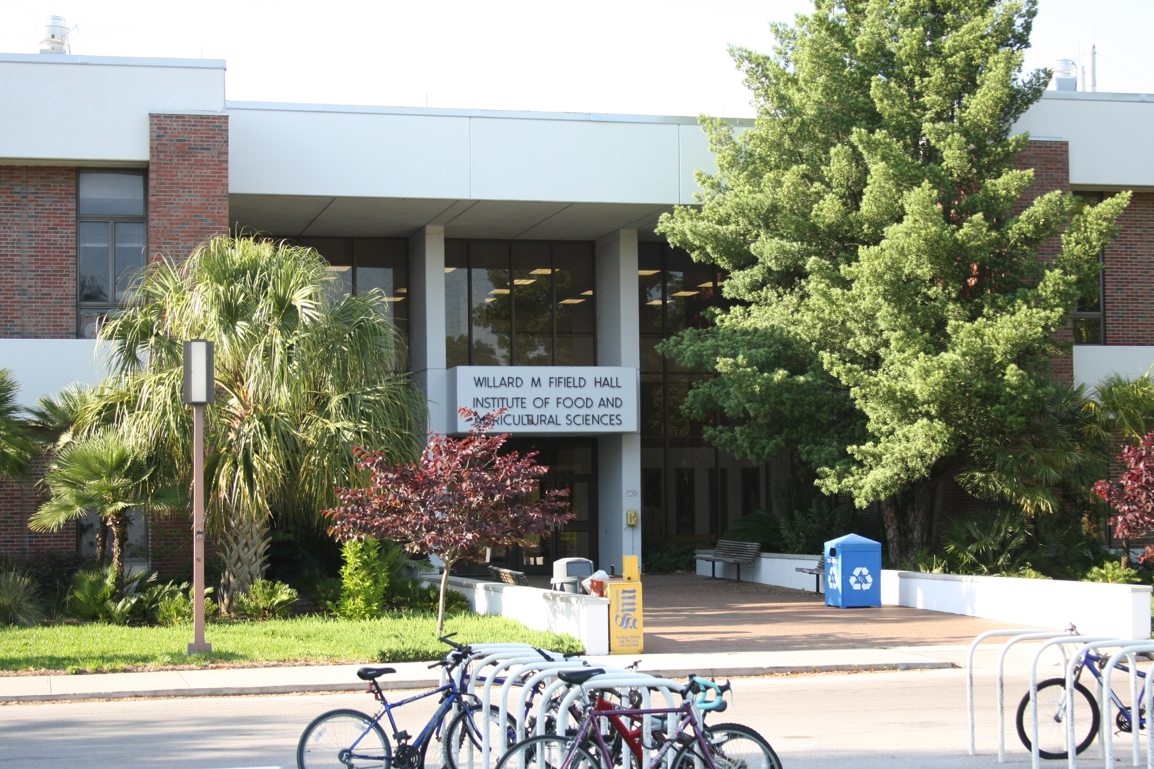 William M. Fifield Hall at the University of Florida